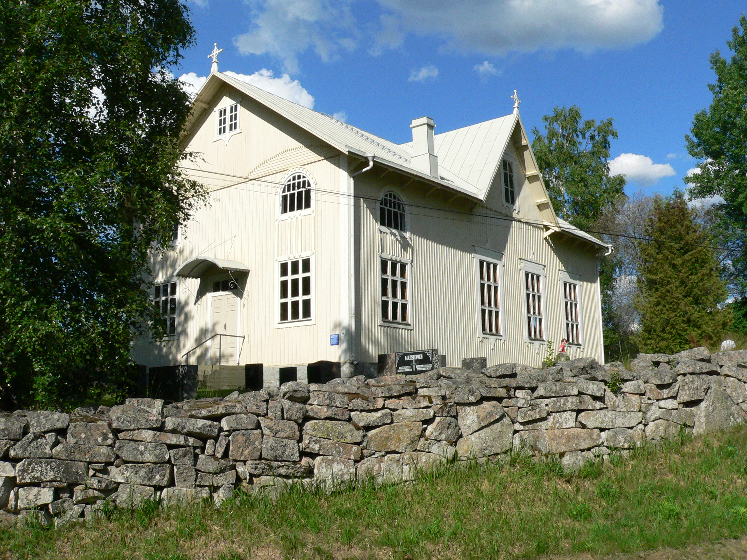 The chapel of Karjalankylä in Mynämäki, Finland, is built in the year 1911 on the place of old chapel